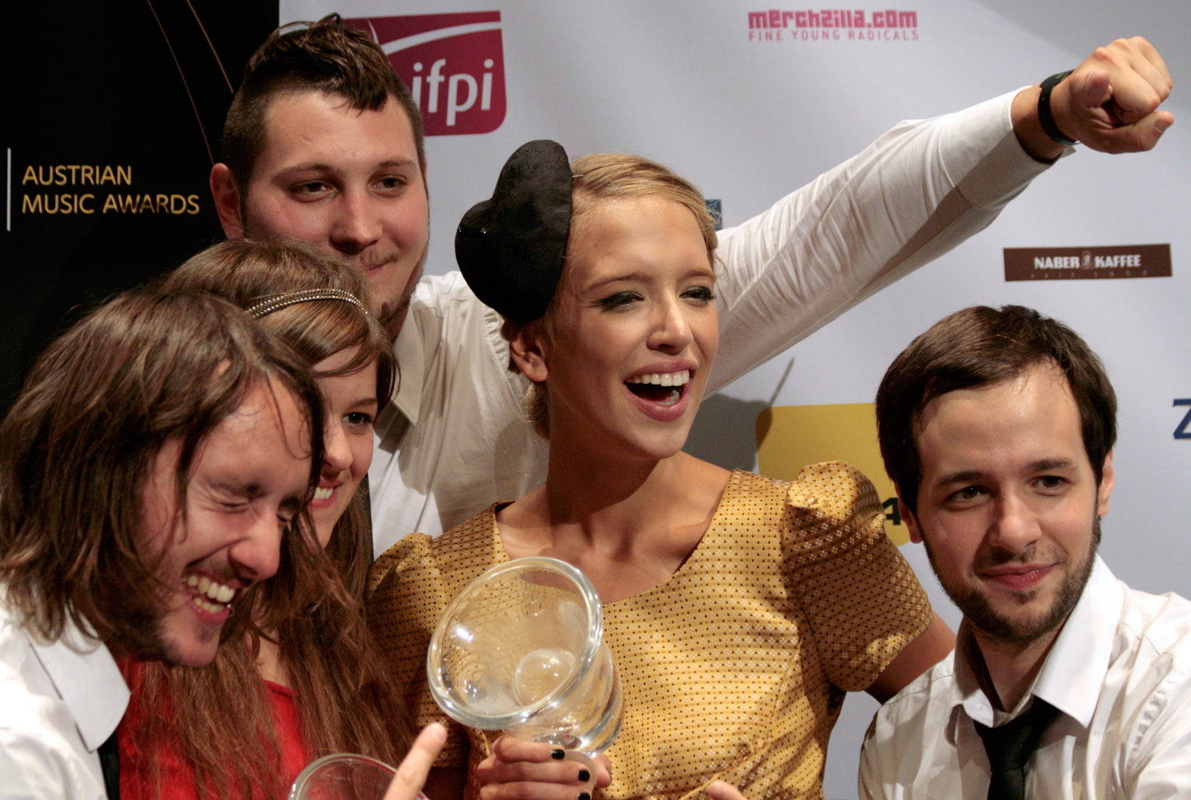 Herbstrock and Vera at the Amadeus Austrian Music Award (Museumsquartier, Vienna)